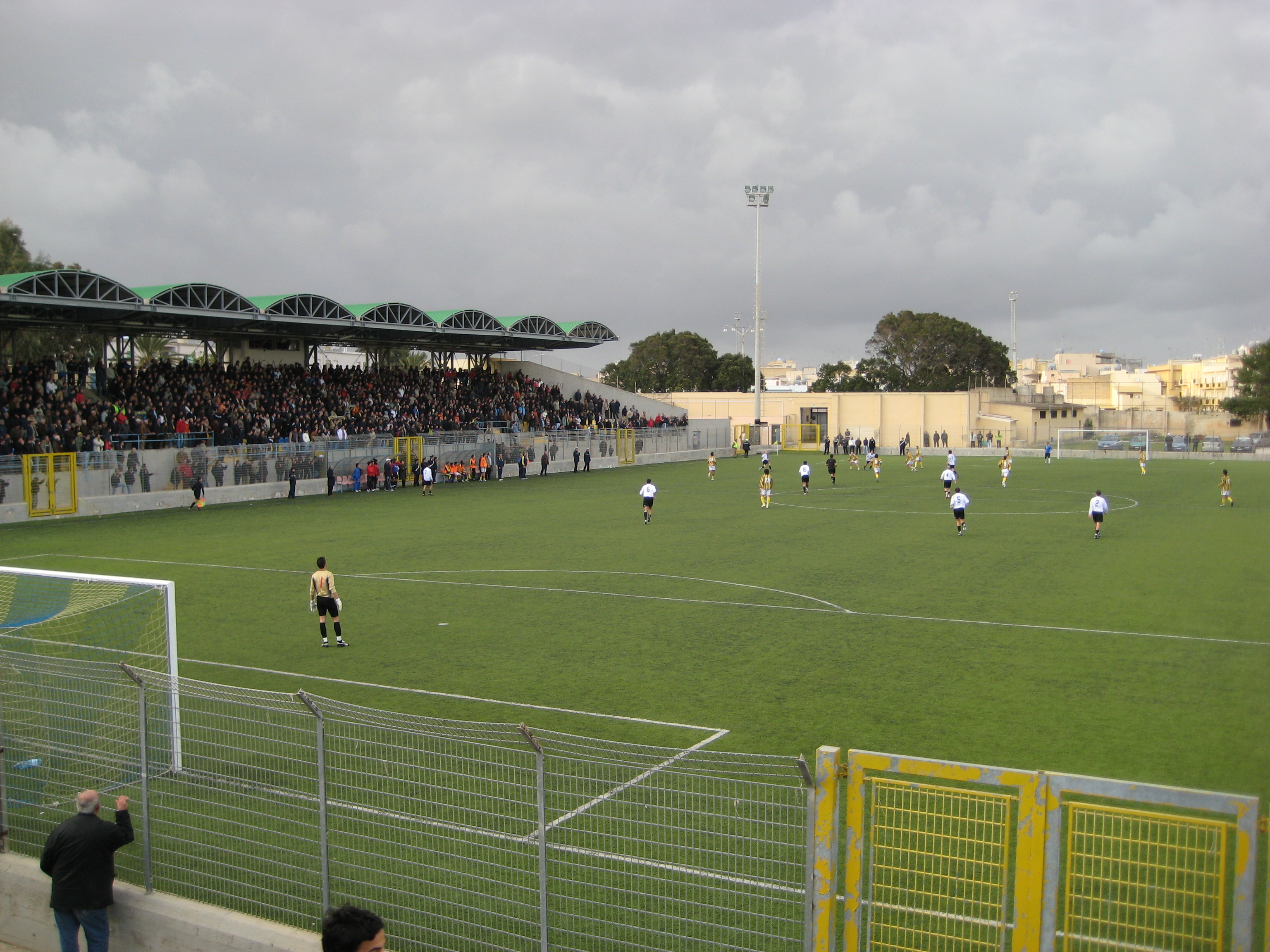 Football match Mazara 1946 vs Splendore Villabate - March 11, 2009, Comunale Nino Vaccara, Mazara del Vallo, Italy